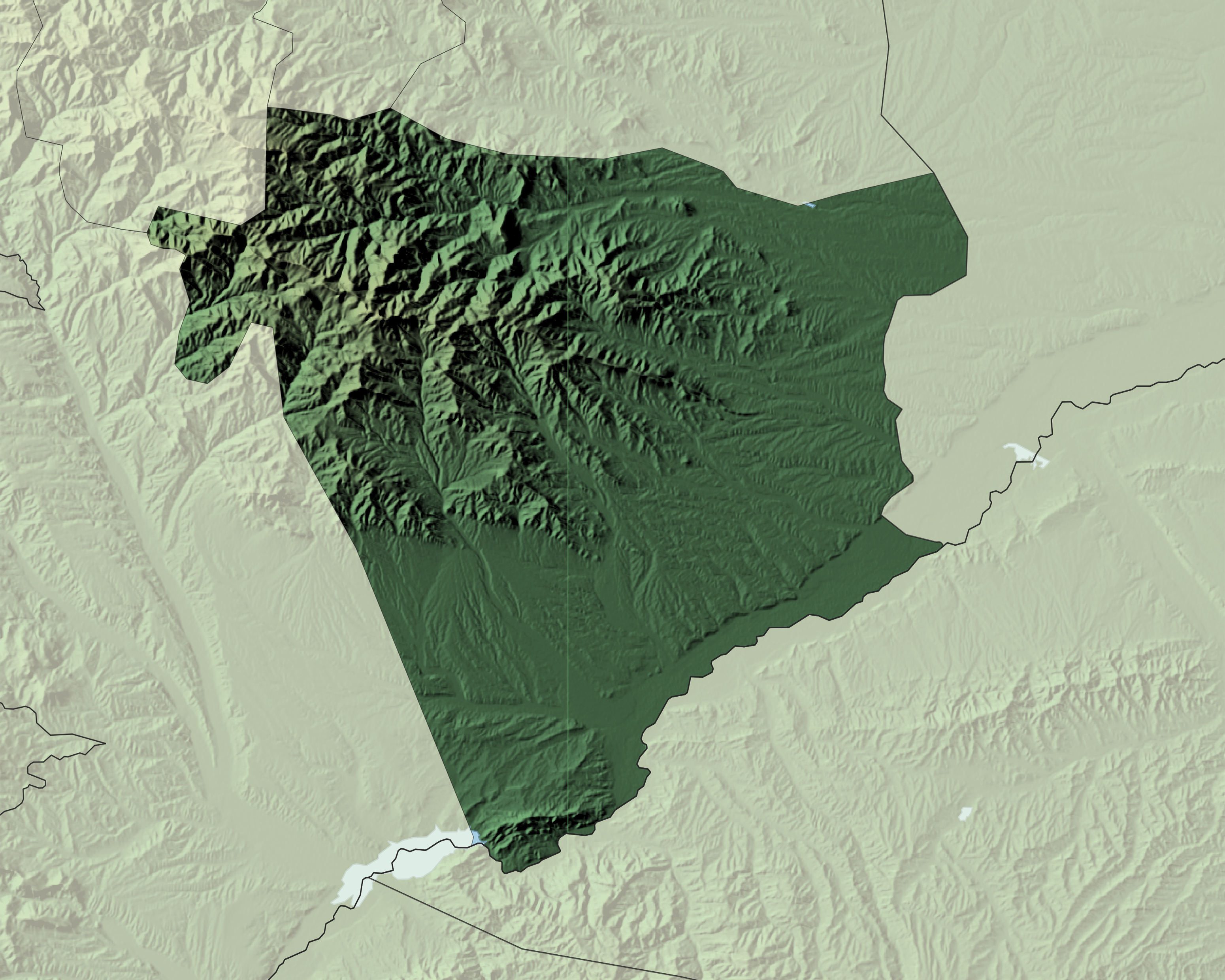 Hillshaded map of Hadrut region of Artsakh Republic